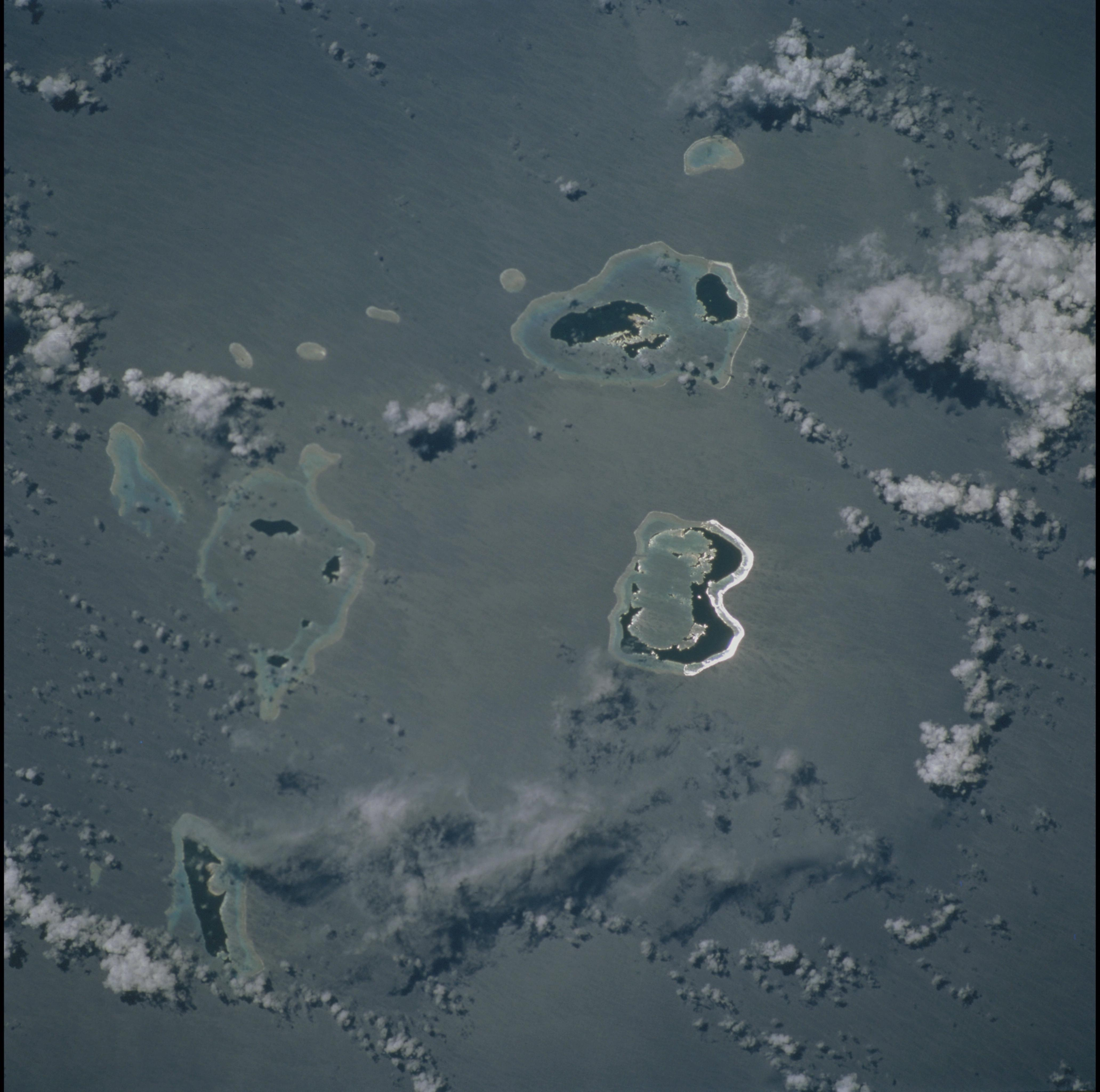 NASA astronaut image of the Yagasa Cluster as part of the Lau Archipelago in Fiji